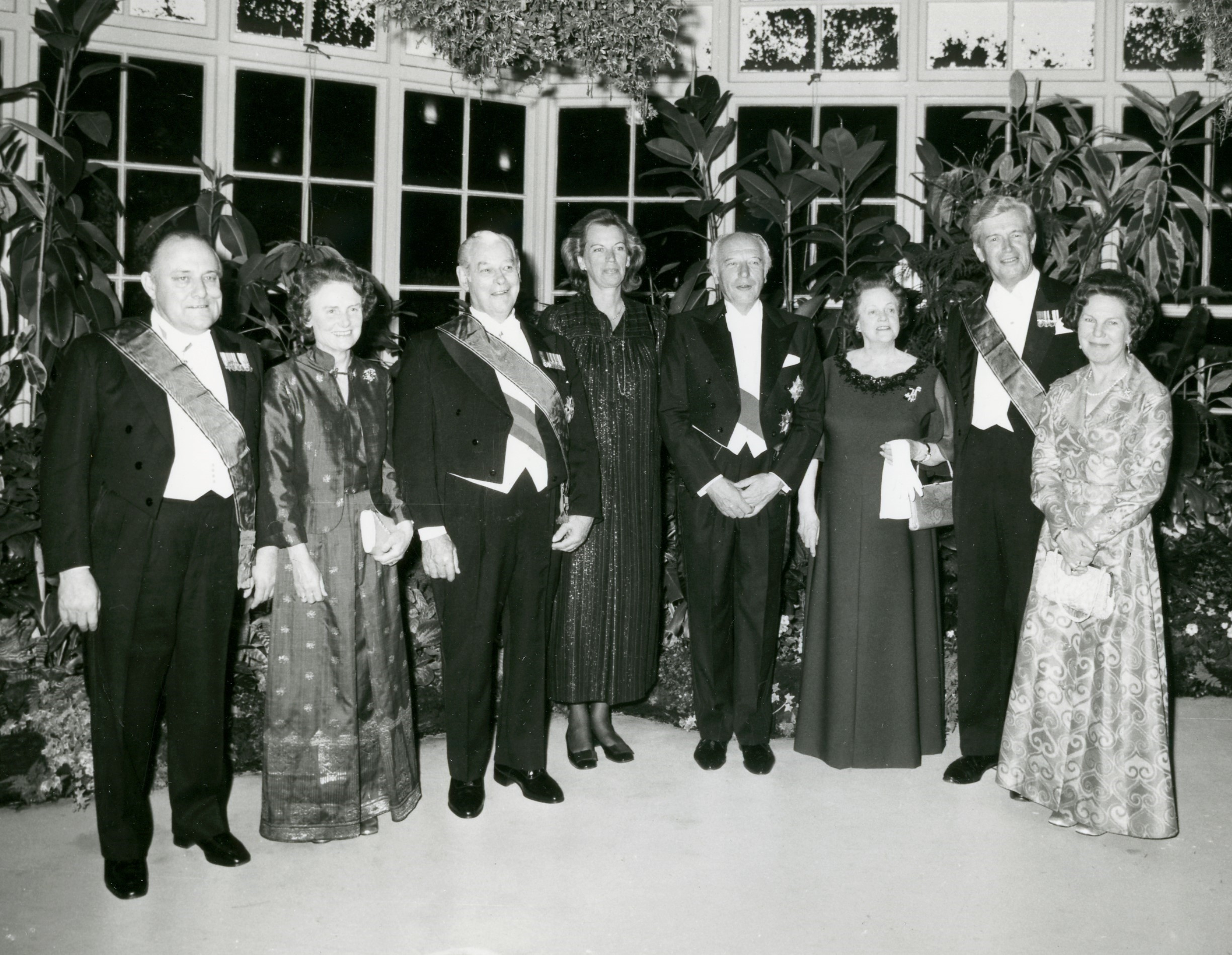 From left: Robert Muldoon, Thea Muldoon, Keith Holyoake, Mildred Wirtz, Walter Scheel, Norma Holyoake, Brian Talboys, Pat Talboys.